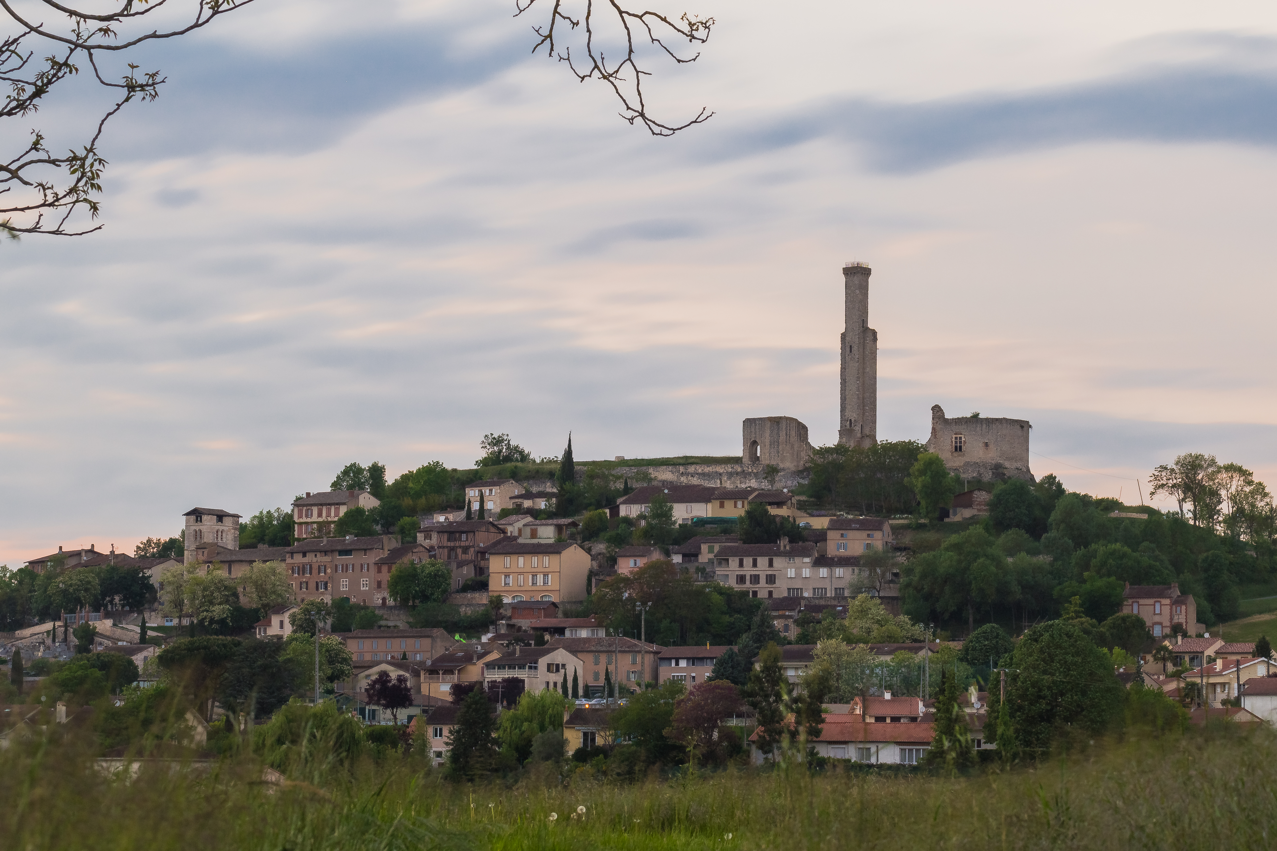 Castelnau-de-Levis village before sunset. We can see the castle from the 13th century.